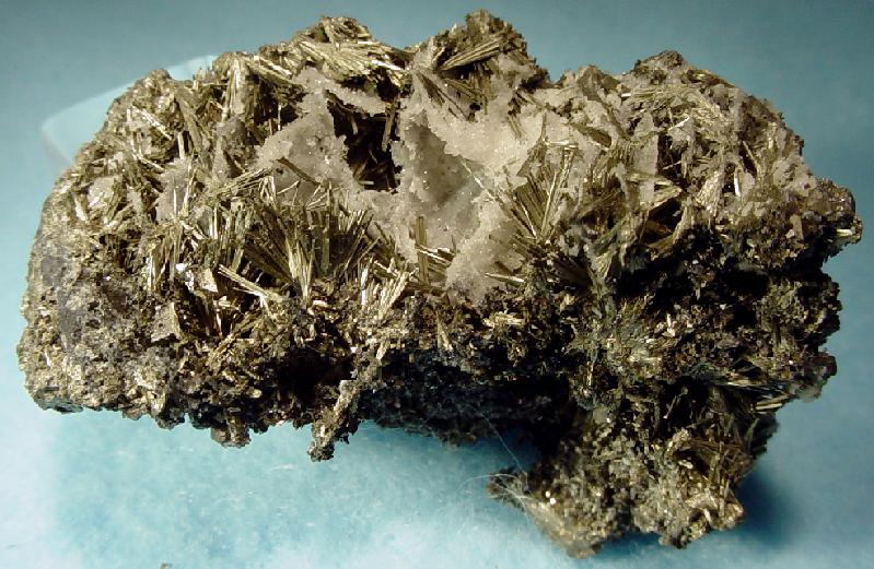 Millerite Locality: Petersbach Mine, Eichelhardt, Wissen, Siegerland, Rhineland-Palatinate, Germany (Locality at ) Sprays of Millerite are uncommon and highly sought-after, occurring from just a few localities worldwide in this quality. The German specimens are noted for particularly thick crystals as you see here, and this specimen contain numerous small sprays throughout. The needles are golden with an excellent metallic luster, and each small spray is nice in and of itself. A very aesthetic miniature. 4.9 x 3.3 x 3.2 cm